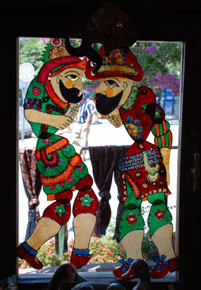 Bursa Hacıvat and Karagöz